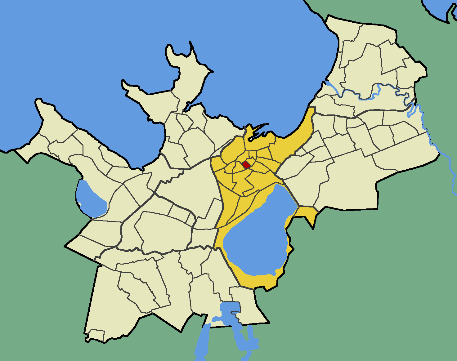 Map of Tallinn (Estonia) with borders of the quarters, Kesklinn district and Sibulaküla quarter emphasised